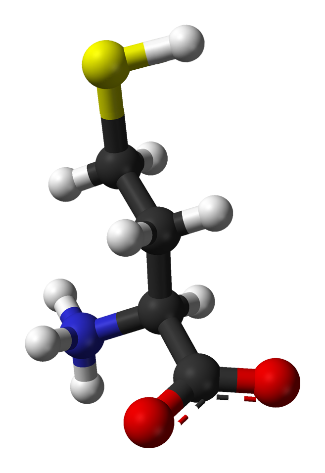 Ball and stick model of the homocysteine molecule (L-isomer).